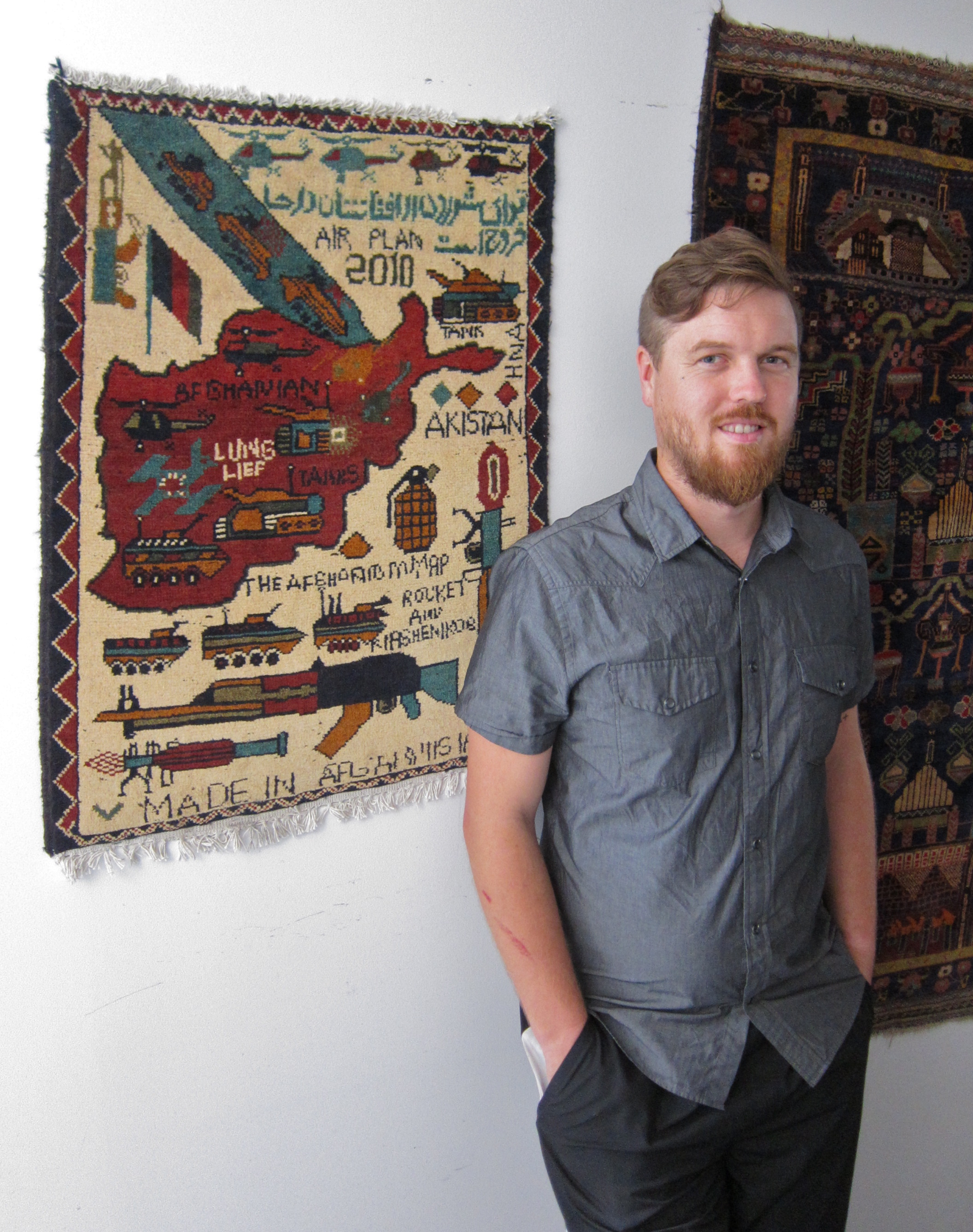 I went to visit Todd’s loft, which looks a lot like the geek-infused college dormitory that I would have wanted to inhabit. Funny decorations, indoor lofts and scattered lab apparatus makes you want to explore for a while. The hand-woven war rugs from his trips to Afghanistan caught my eye. The rug makers started incorporating war imagery in their rugs in 1979 with the Soviet occupation and it has continued during the U.S. occupation. "Little is known about the circumstances of war rugs' production and distribution, or their makers' intentions." (wikipedia)